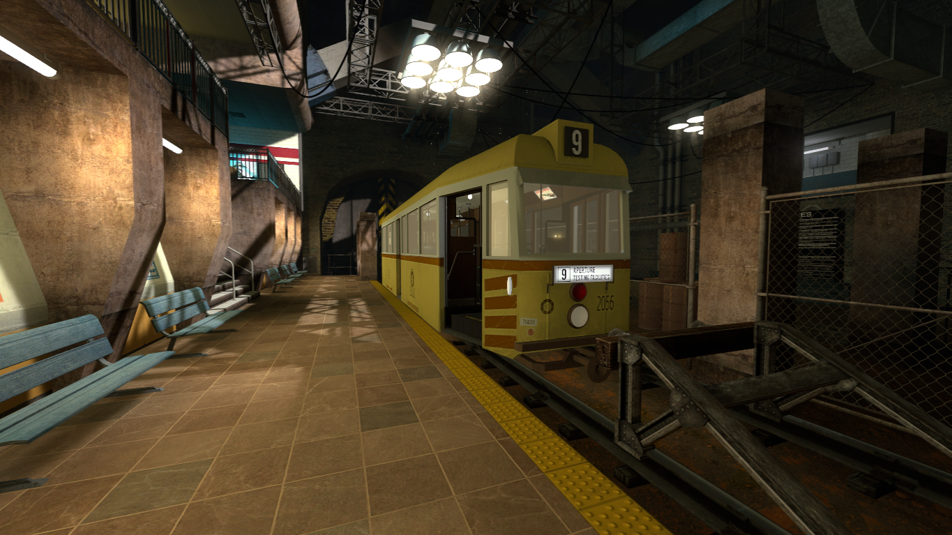 1950 room style. Screenshot of the game Portal Stories: Mel. Authorized upload after making a request to Prism Studios Ltd.